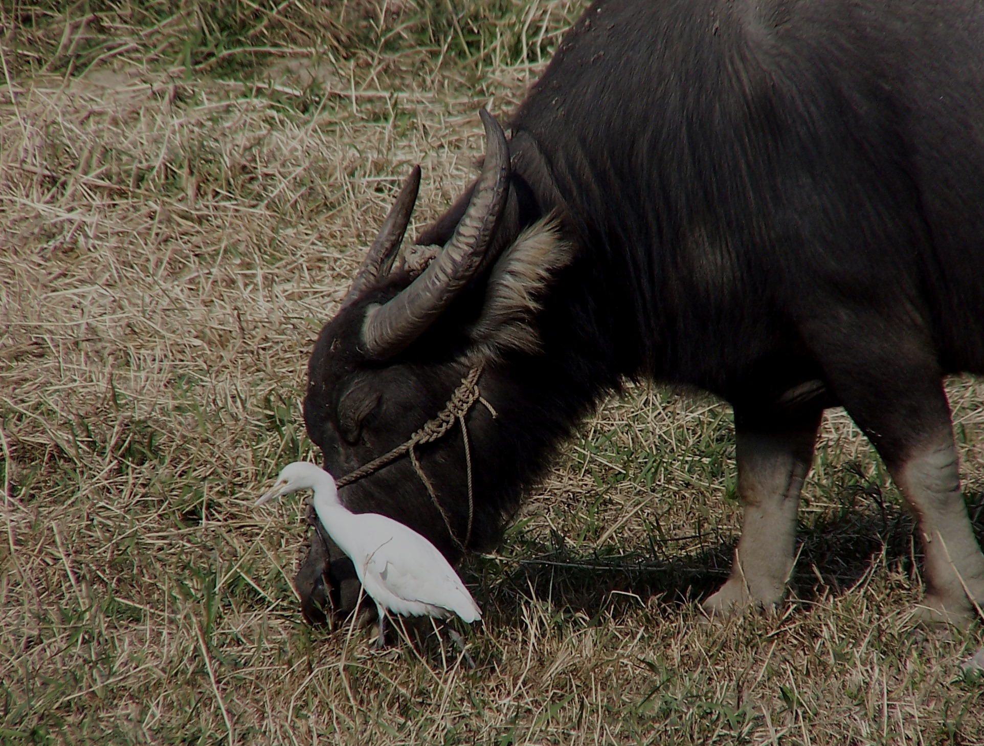 Cattle Egret (Bubulcus coromandus) walking by a Water Buffalo. Hong Kong.